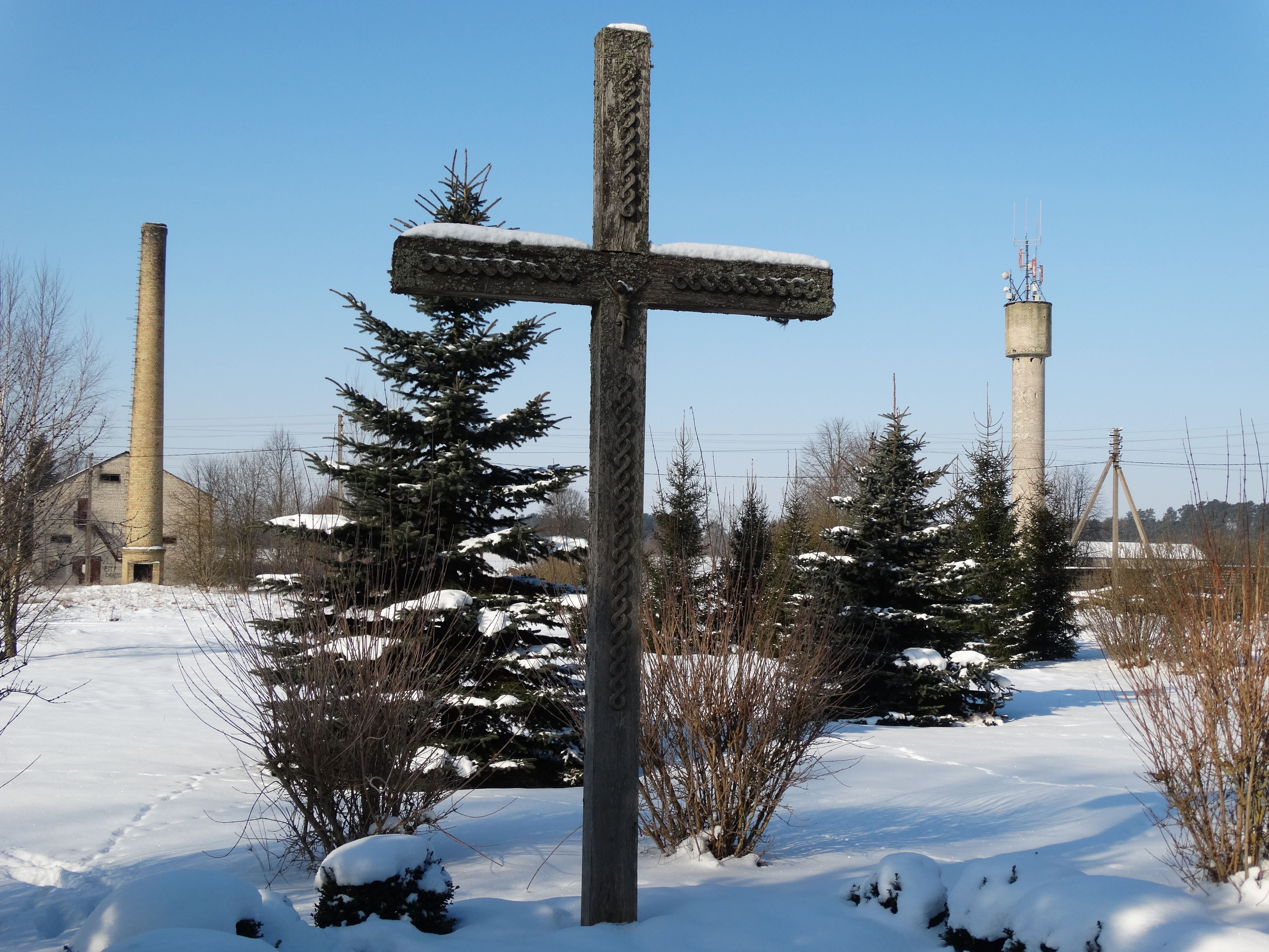 Žukai, Pagėgiai Municipality, Lithuania